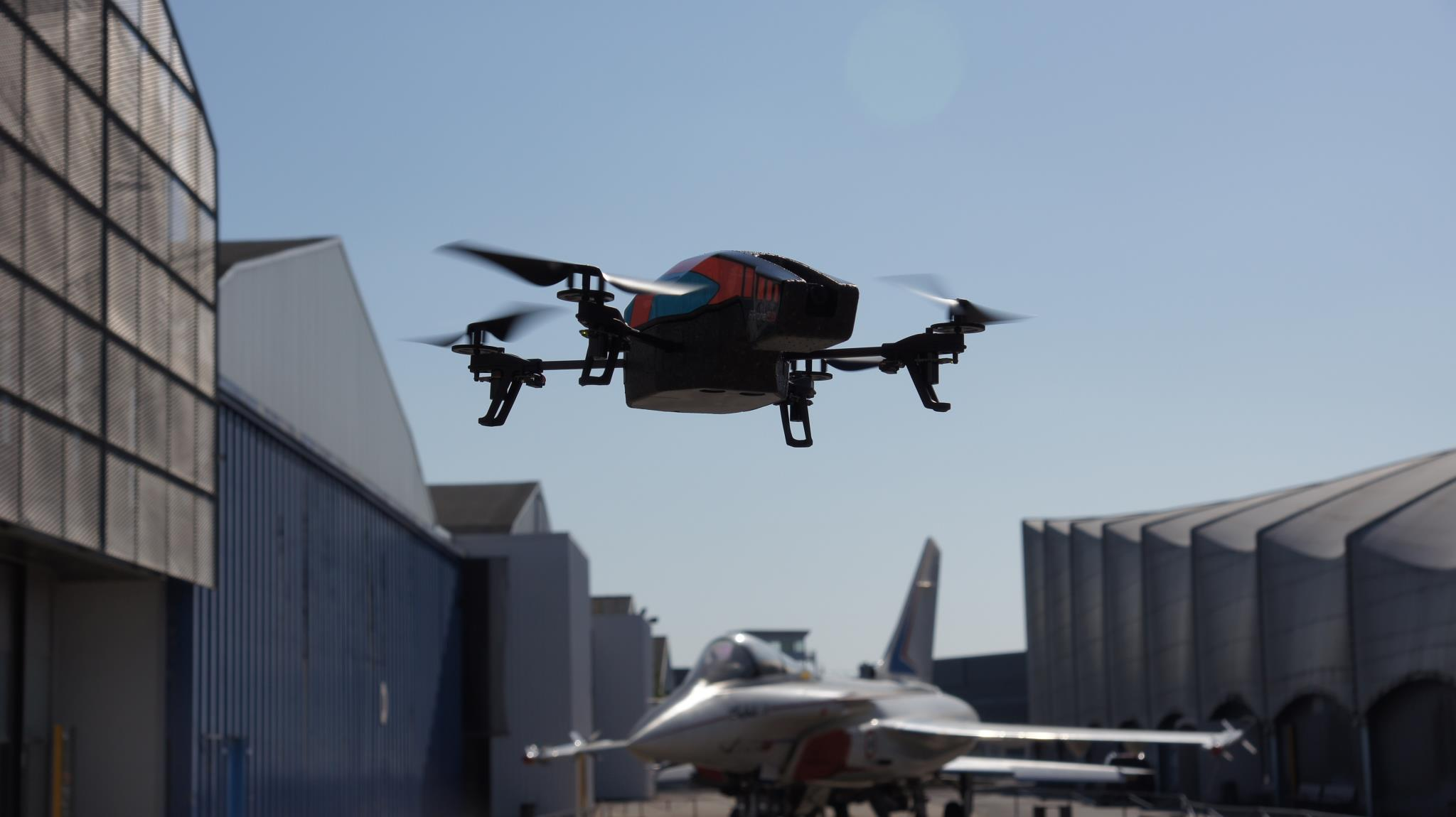 Parrot AR.Drone 2.0 & Dassault Rafale